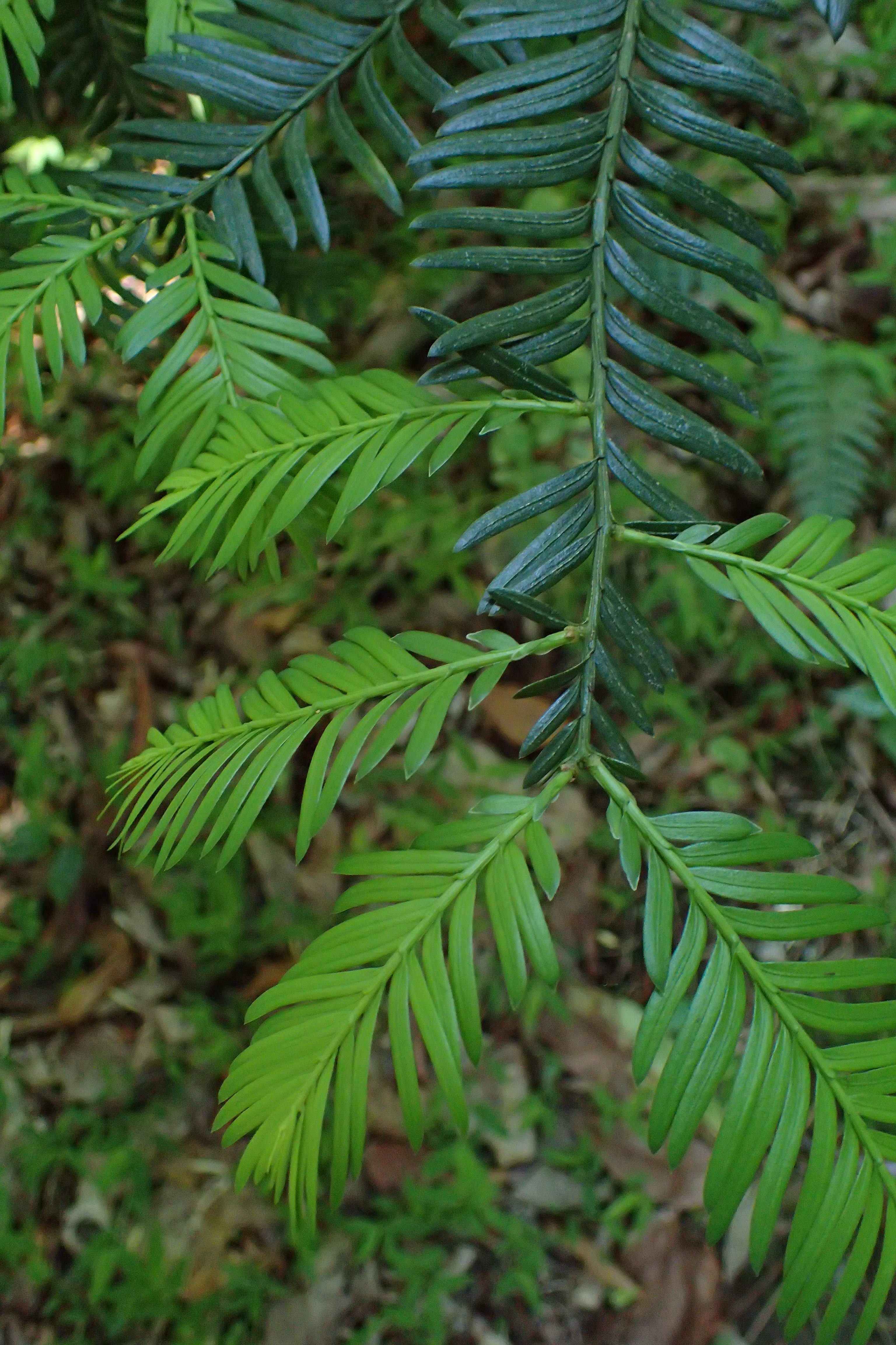 Taxus wallichiana var. mairei in botanical garden in Batumi